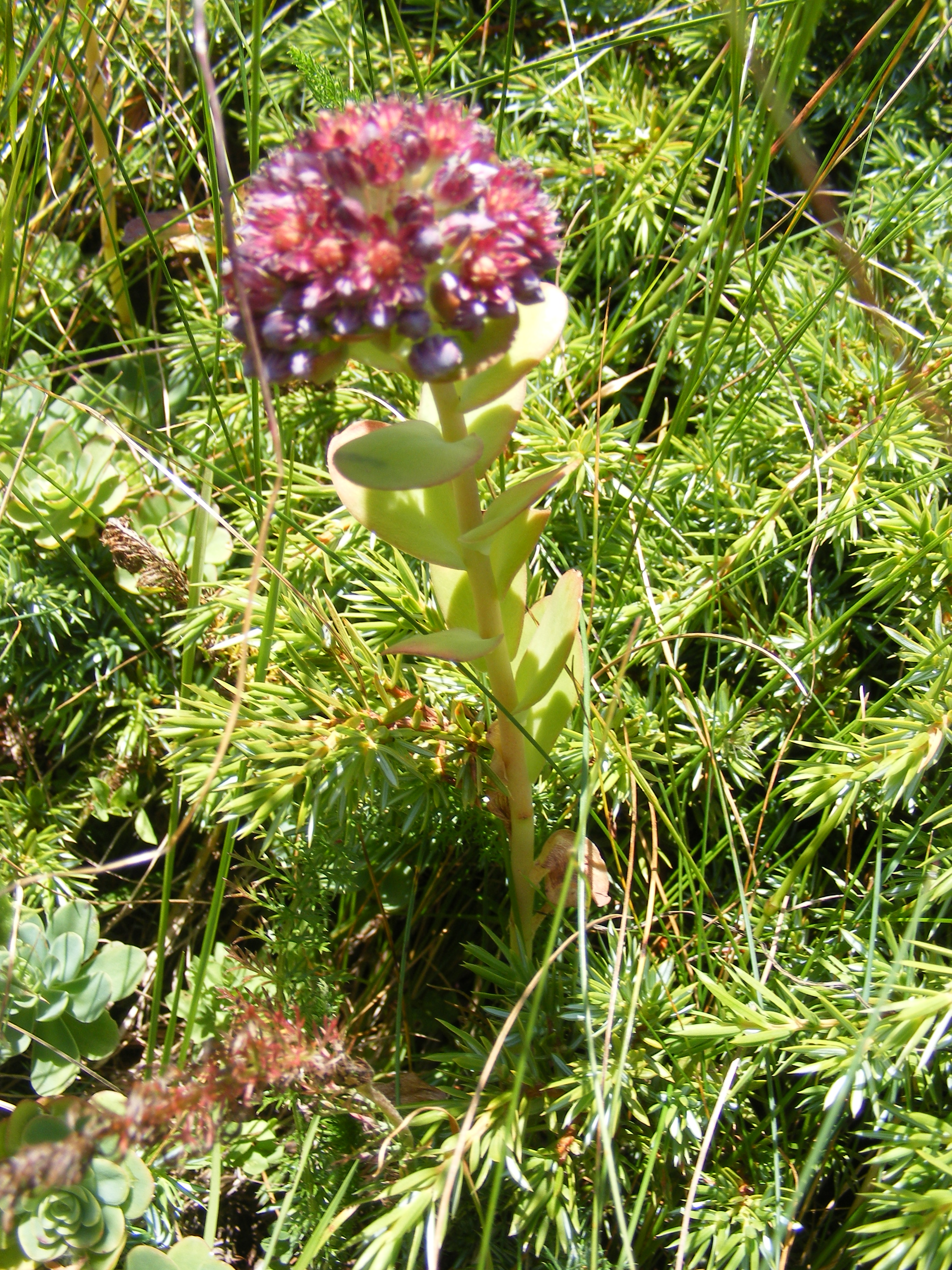 Sedum anacampseros